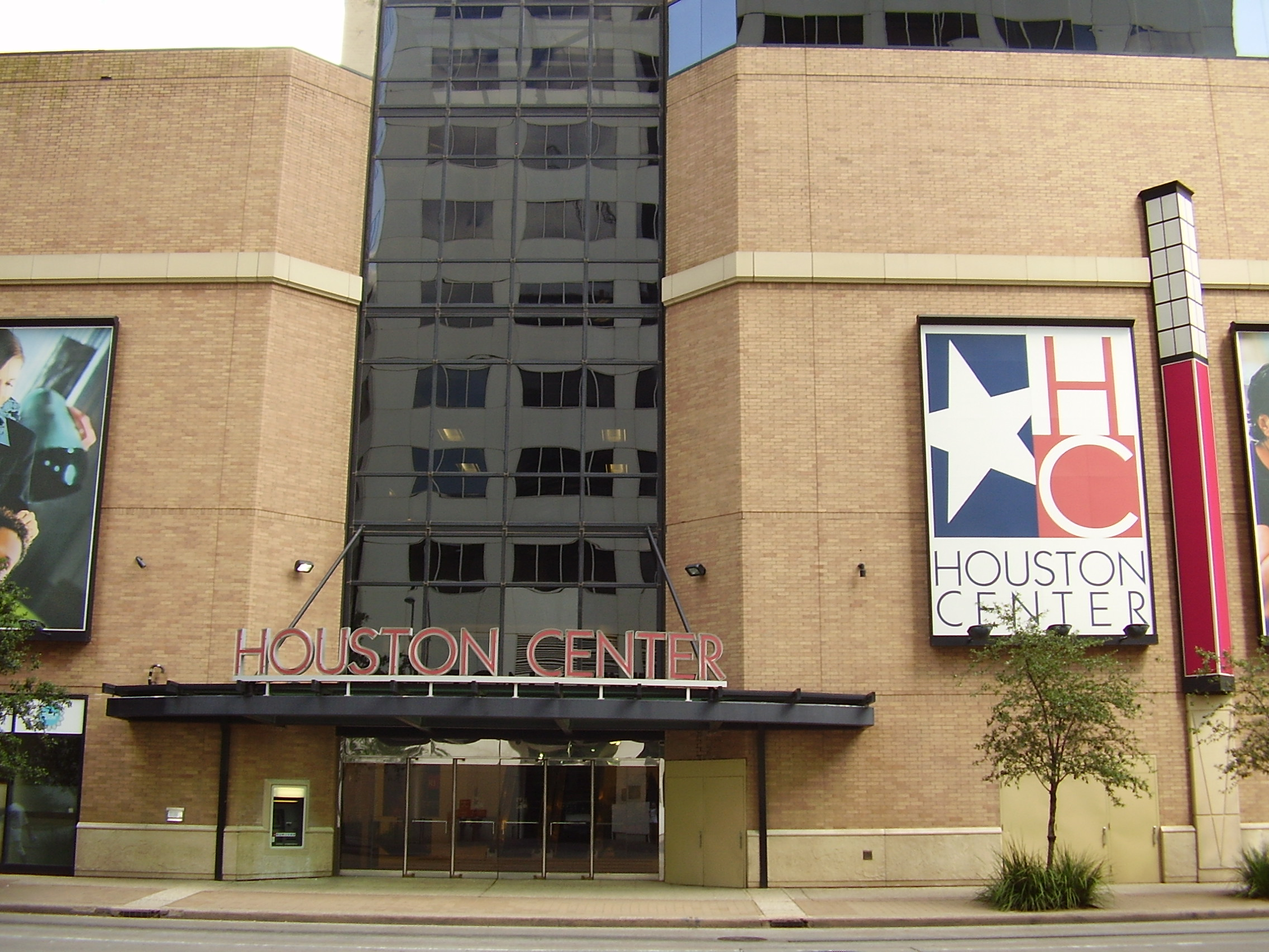 Entrance to the Houston Center complex